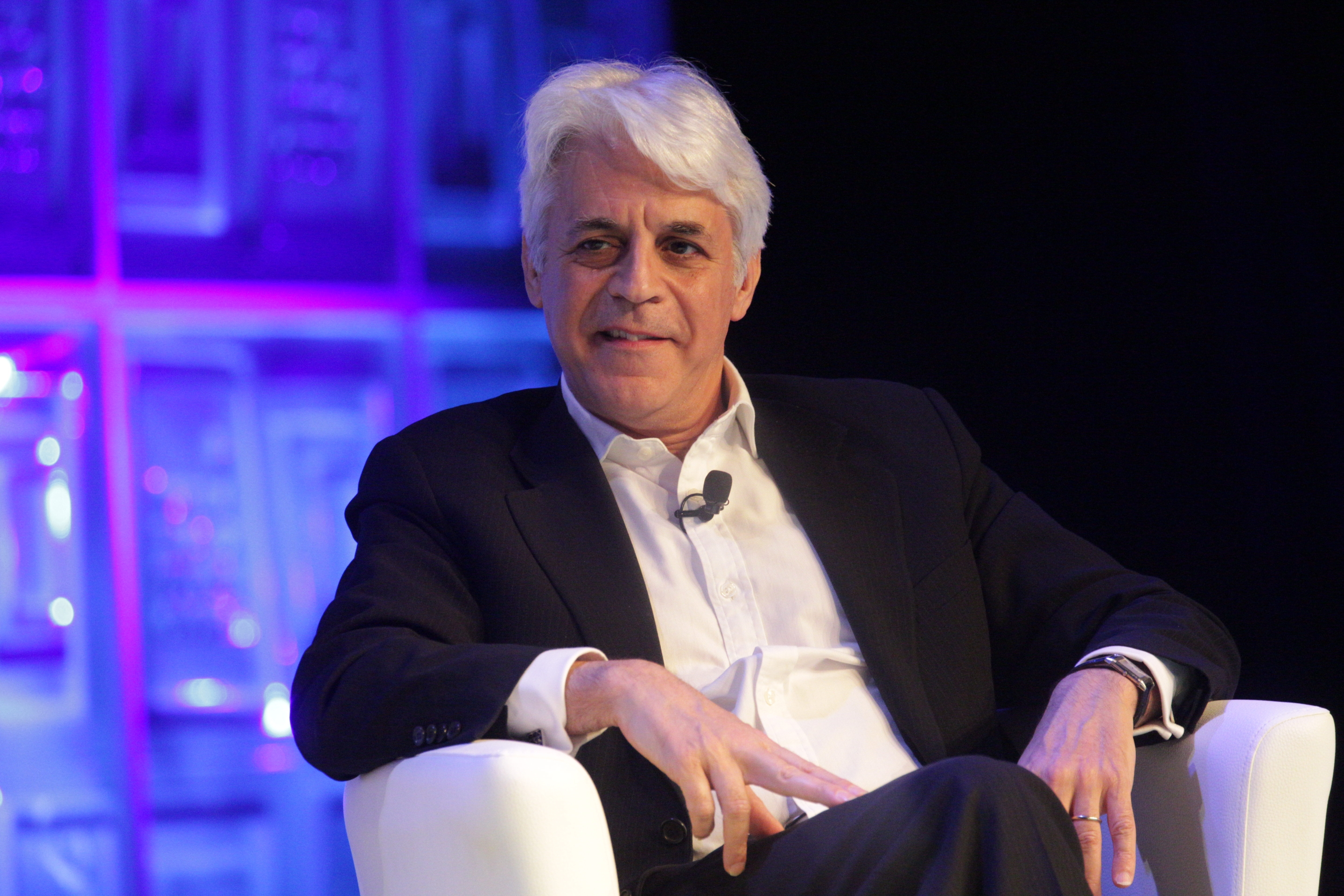 WTTC Global Summit 2015 World Travel & Tourism Council Flickr images